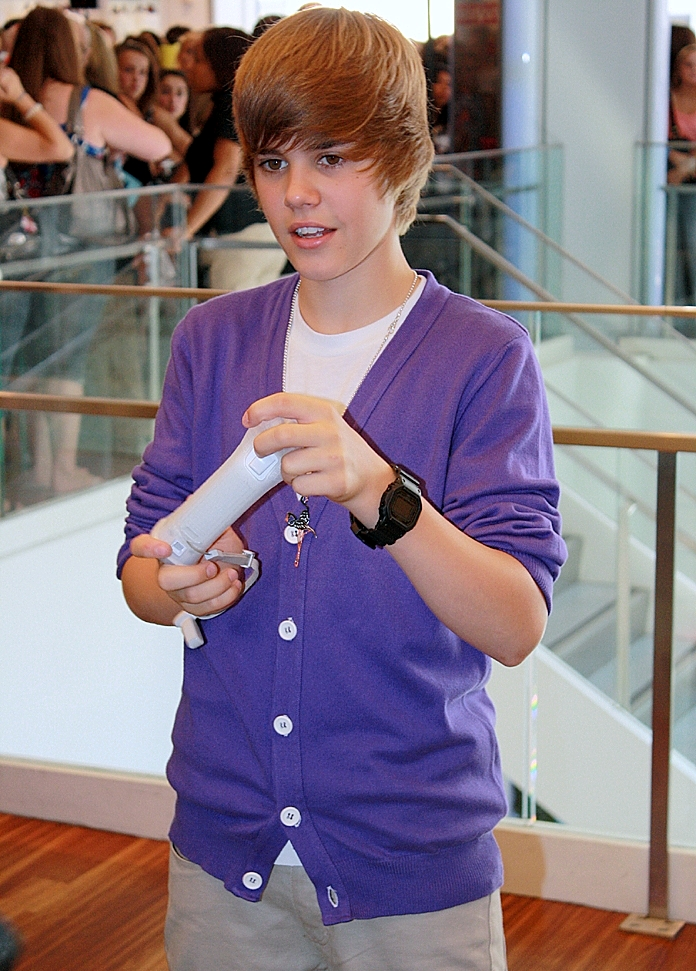 NYC signing September 1,2009 Nintendo Store - NYC